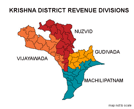 Krishna district revenue divisions